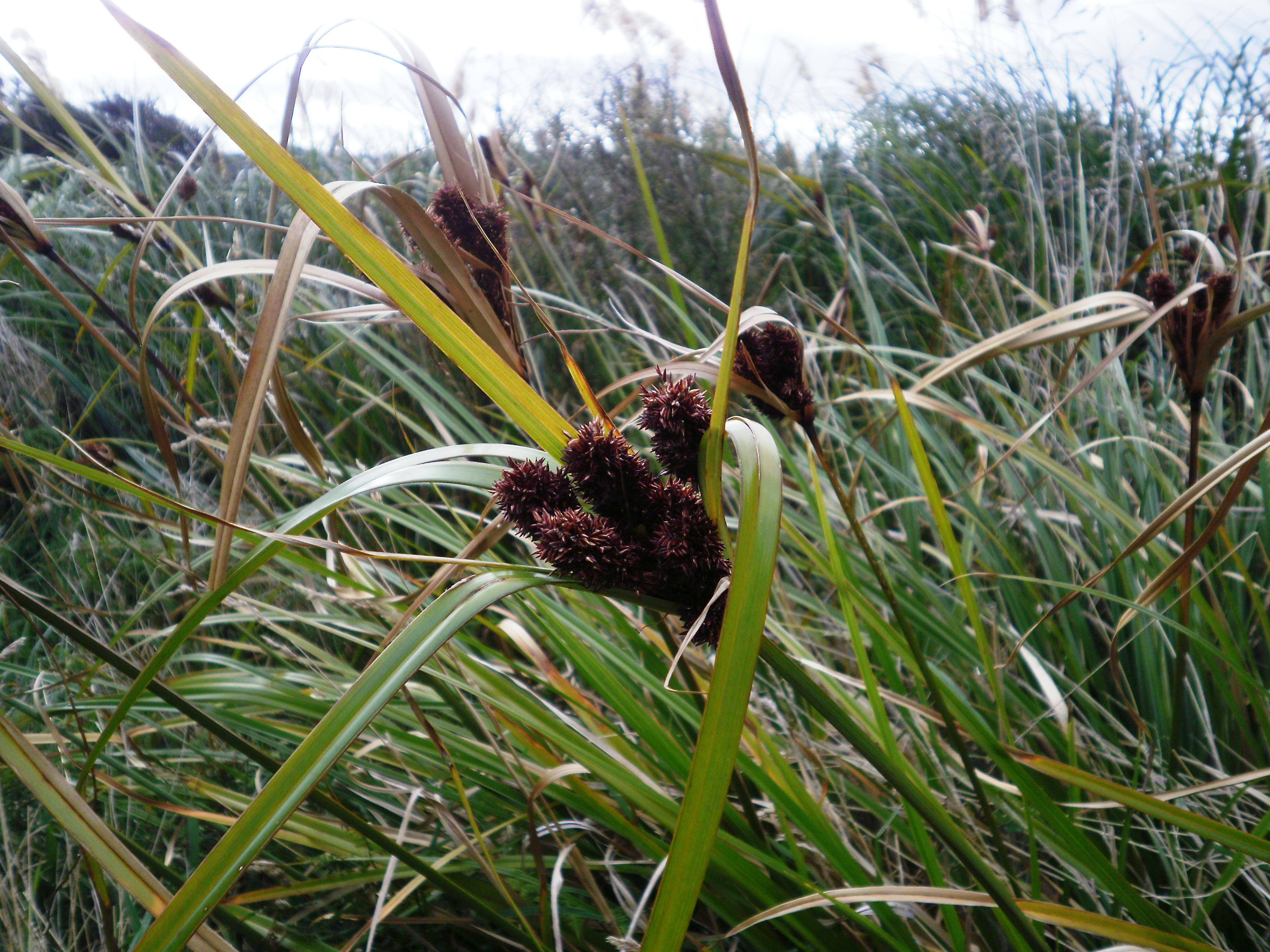 Cyperus ustulatus, giant umbrella sedge, toetoe, coastal cutty grass, shown here at the edge of Lake Kohangatera, in Wellington, New Zealand.